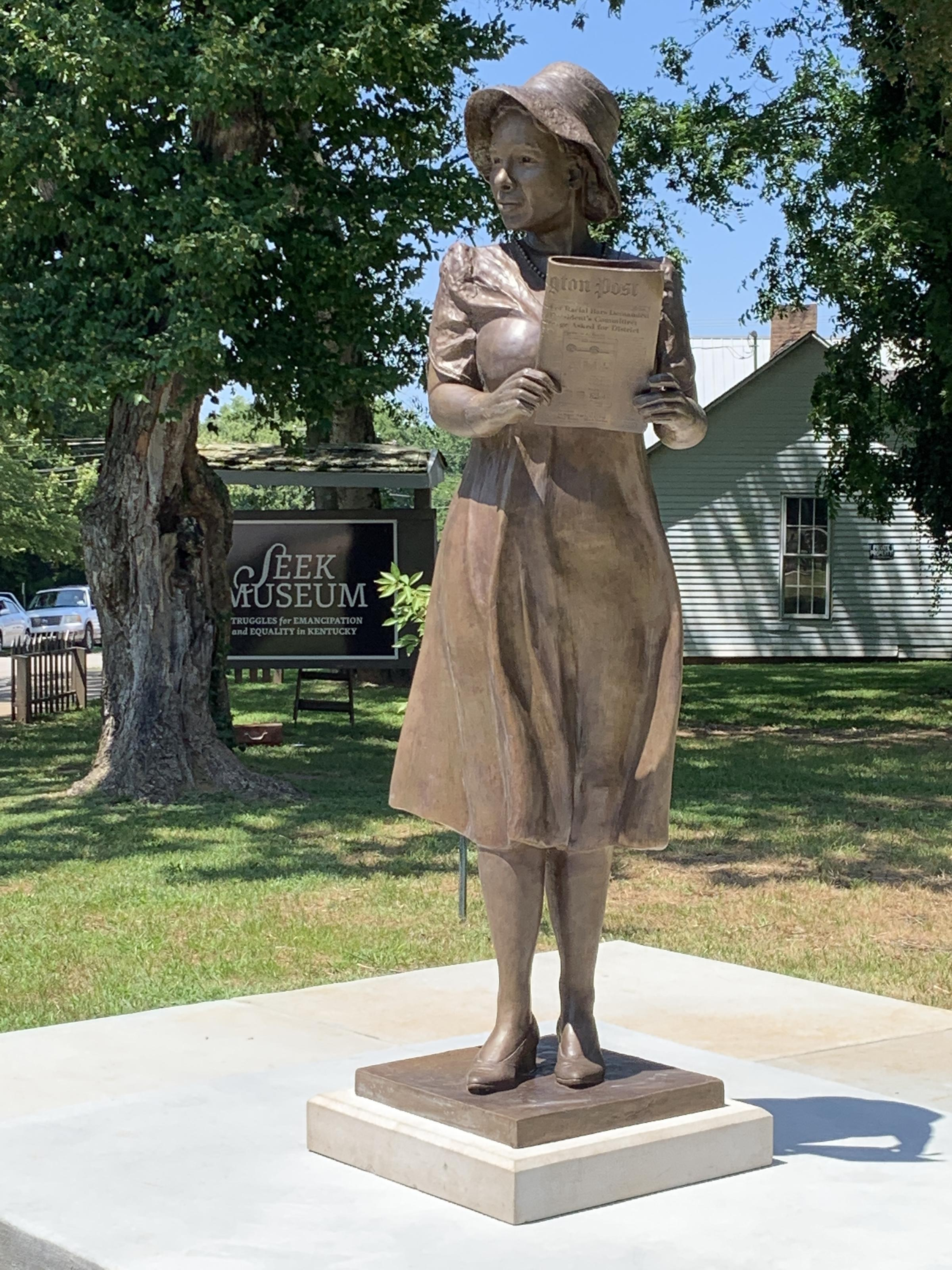 Alice Dunnigan was a pioneer in civil rights and journalism in America. She was the first African American woman to be allowed to attend White House, Congressional and Supreme Court news briefings. The statue of her is located in her hometown of Russellville, Ky on the grounds of SEEK Museum: Struggle for Emancipation and Equality in Kentucky.